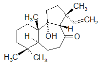 Parryin, a diterpenic compound from Salvia parryi